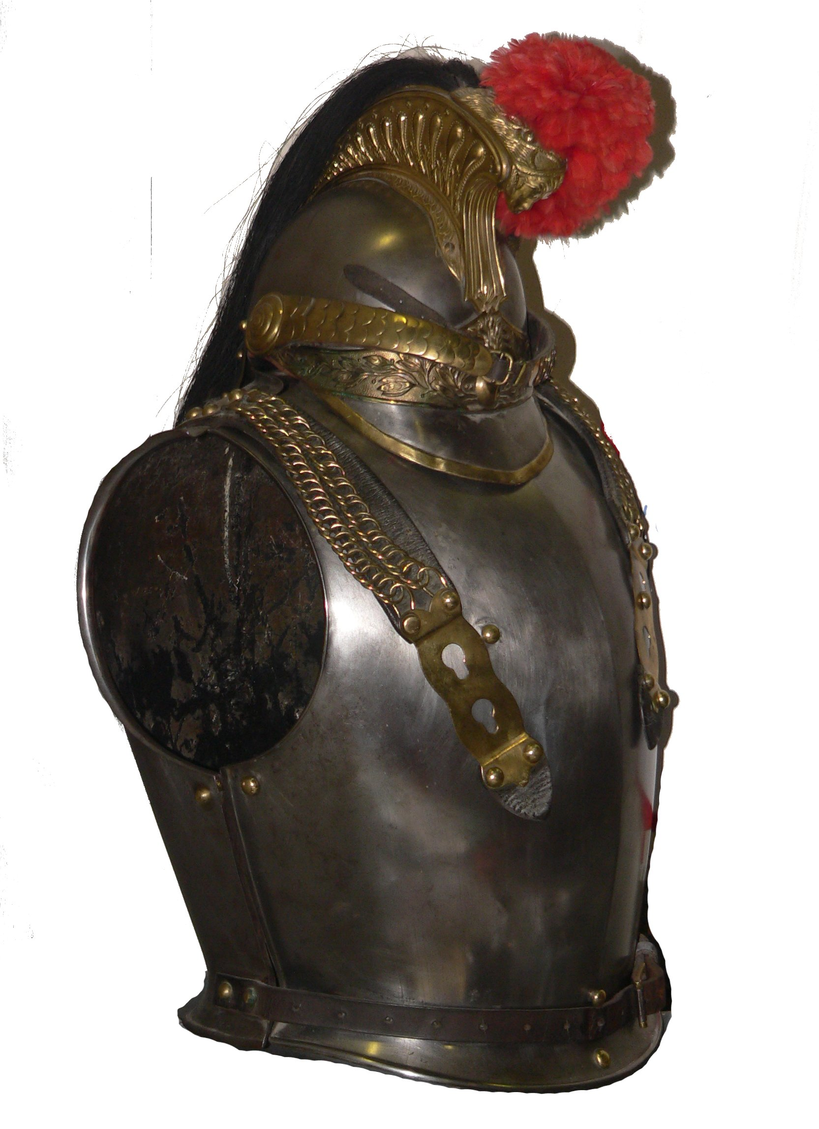 French cavalery armour, 1854